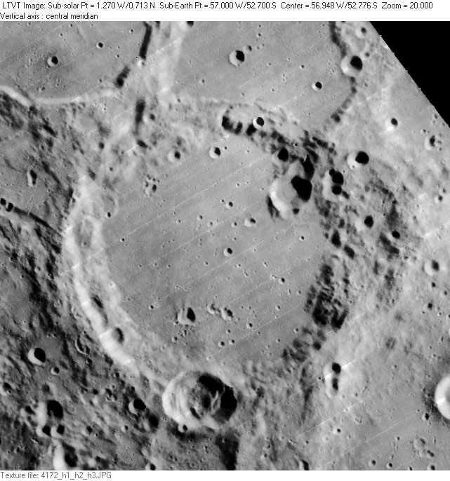 Crater Phocylides. Detail from Lunar Orbiter IV-172H. High resolution scans from the USGS Lunar Orbiter Digitization Project remapped to a north-up aerial view by LTVT.